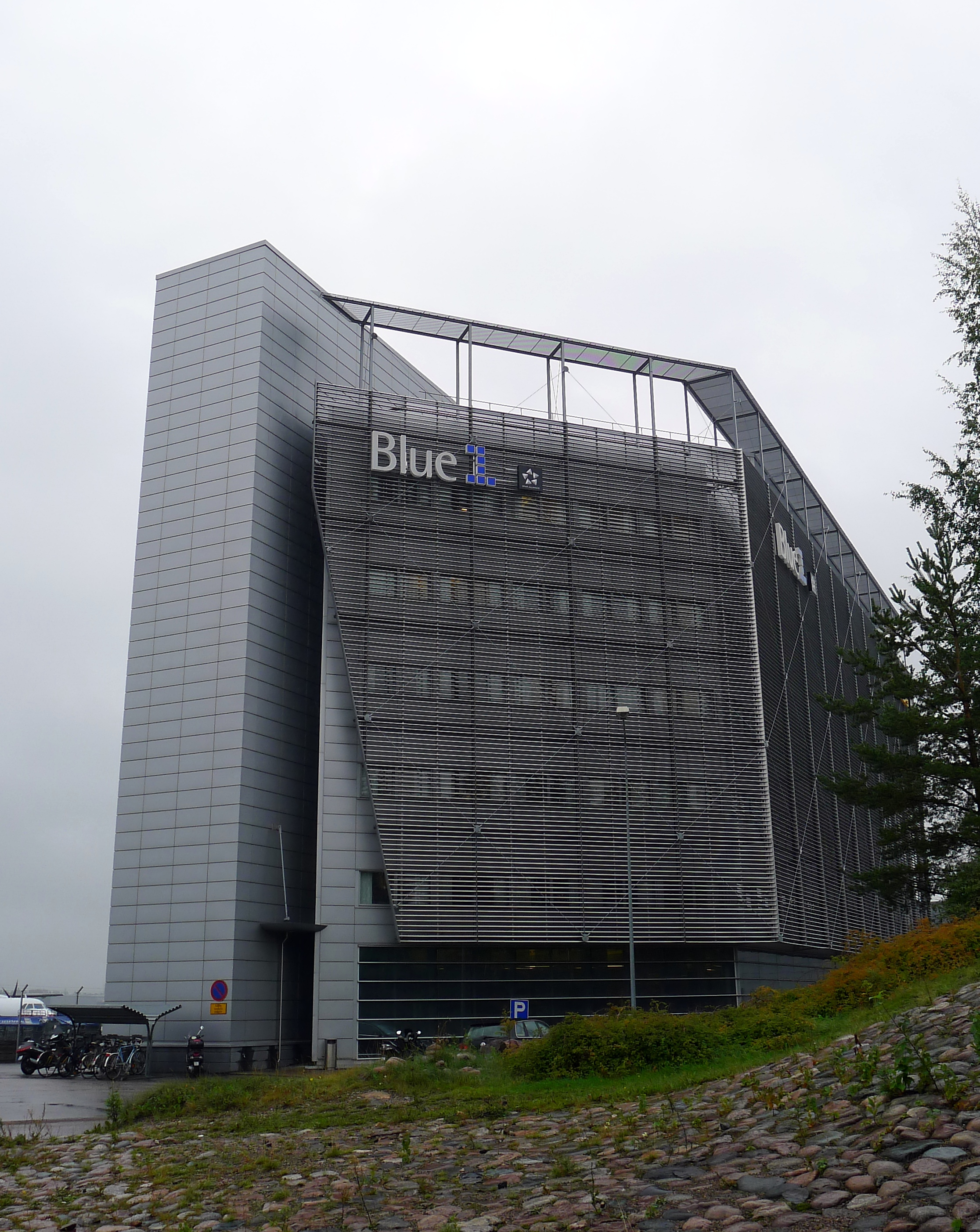 Headquarters of Blue1 at the Helsinki-Vantaa Airport, Rahtitie 3, 01530 Vantaa